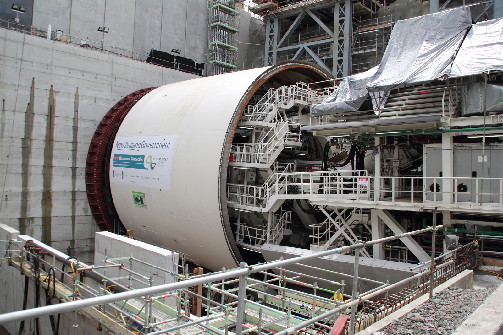 Waterview tunnel project (Mt Roskill end) open day. Boring machine and tunnel construction on view. 22,000 people attended over the day. The Waterview Connection is a motorway section under construction through west/central Auckland, New Zealand. It is to connect the stub of State Highway 20 in the south from Mt Roskill to join up with another motorway, State Highway 16 in the west at Point Chevalier, and is a part of the Western Ring Route. It was formerly known as the SH20 Avondale extension. The Waterview link will be 4.5 km long, of which 2.5 km are to be in a mostly bored twin tunnel, with three lanes in each tunnel. 13 October 2013 source